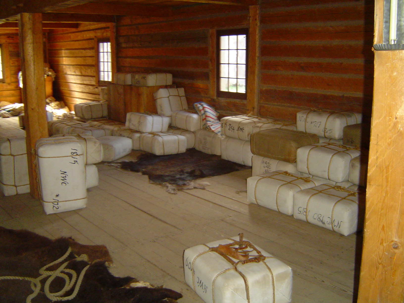 Fur bundles ready for shipment to all parts of the United States and Canada (Fort William Historical Park).